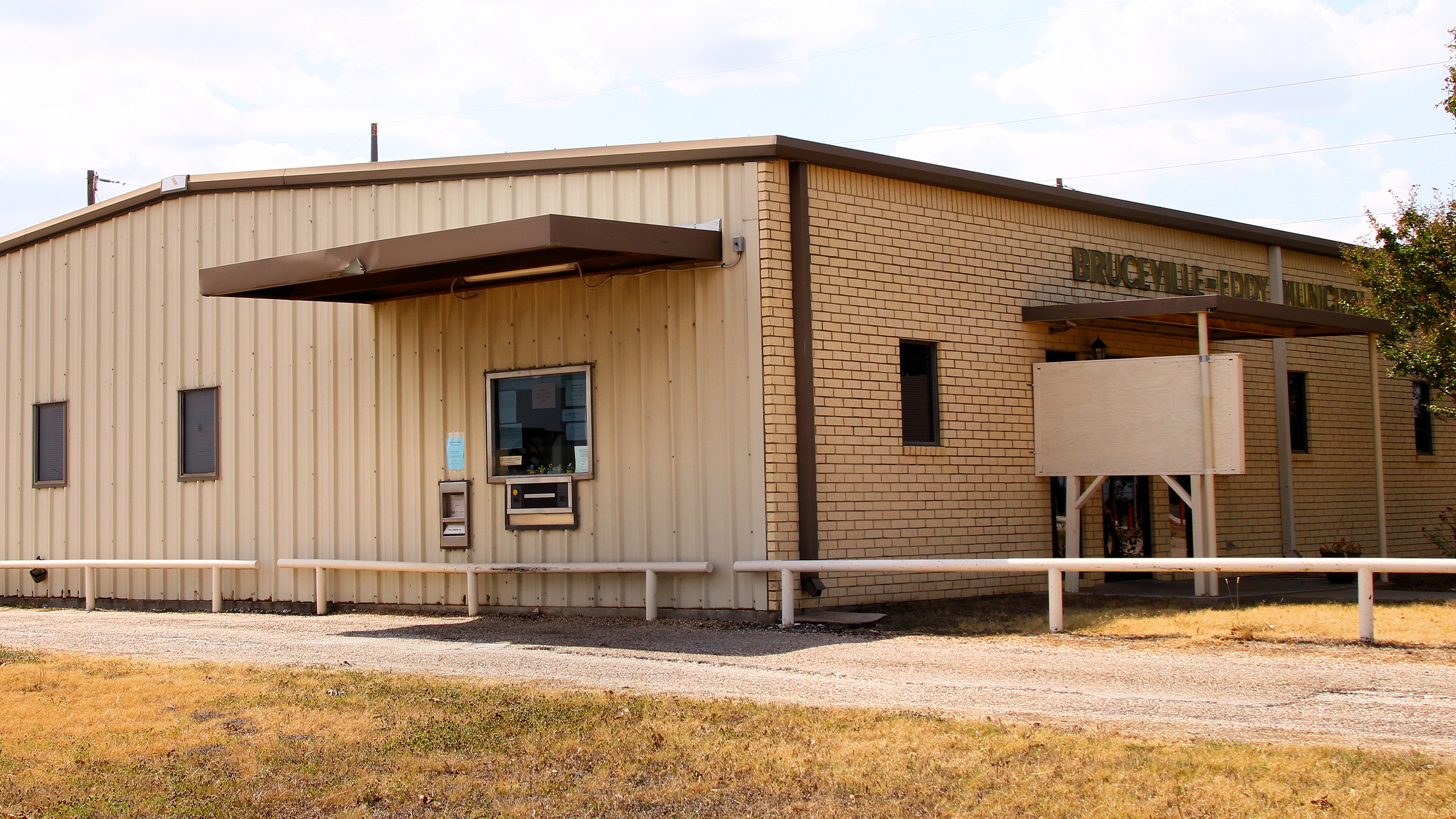 City hall of Bruceville-Eddy, Texas, United States.